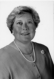 Jari Askins, Oklahoma politician